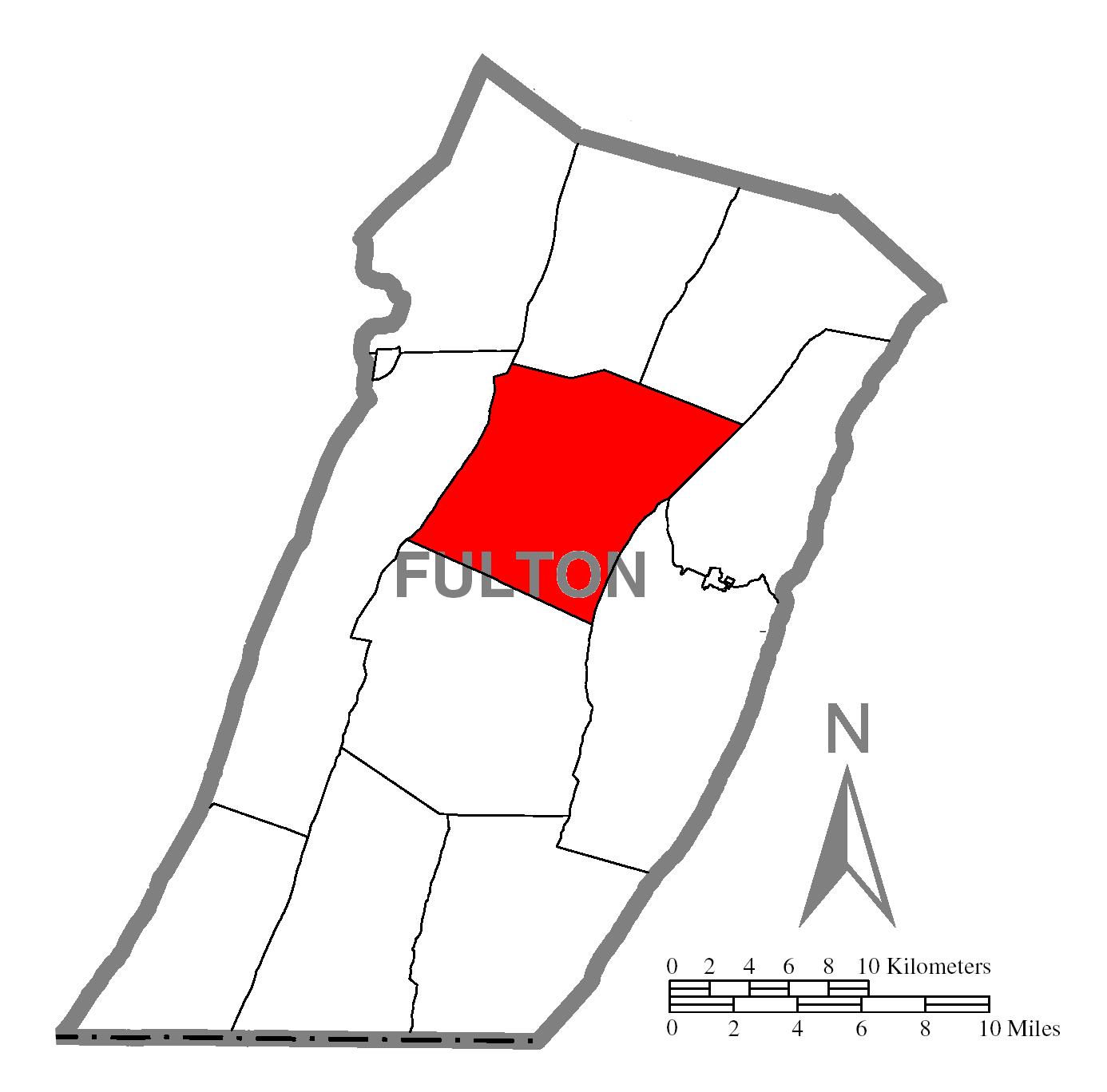 A map of Fulton County showing Licking Creek Township, Pennsylvania (alternate) highlighted on the map.